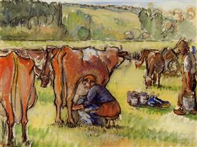 Work by Camille Pissarro